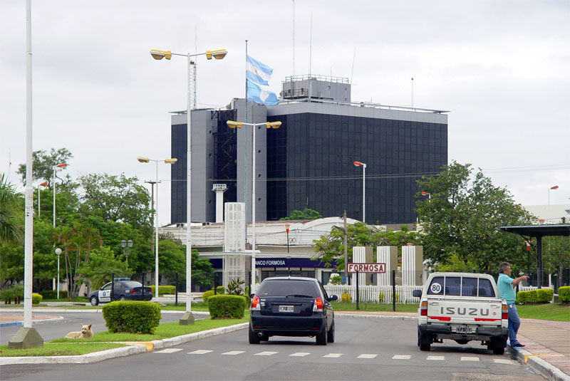 Governor's Office Building, Formosa